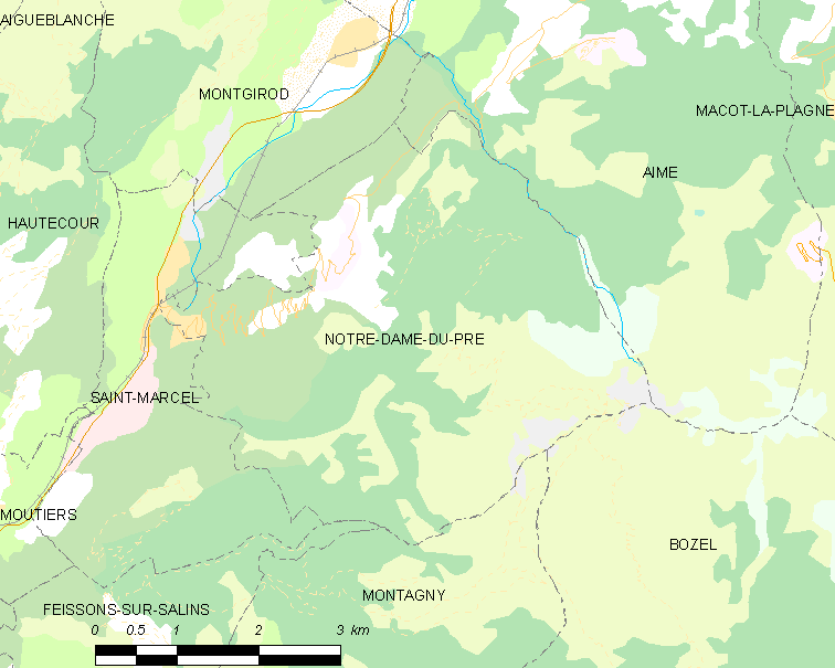 Map of French municipality